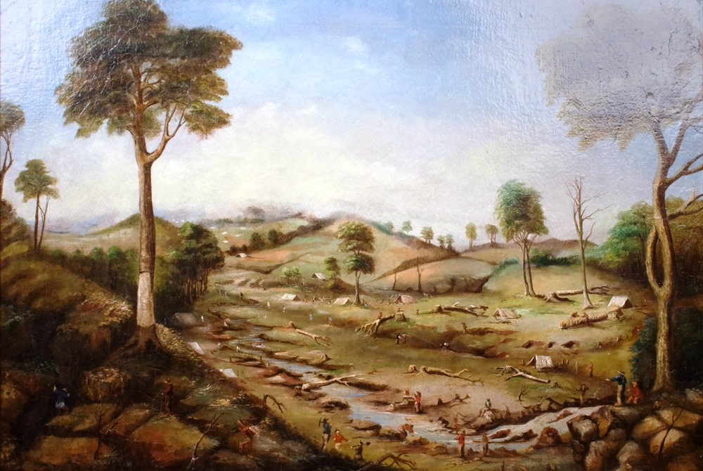 Painting by Edwin R L Stocqueler, dated 1880, after his drawings made in goldfields in Victoria, Australia in 1854.